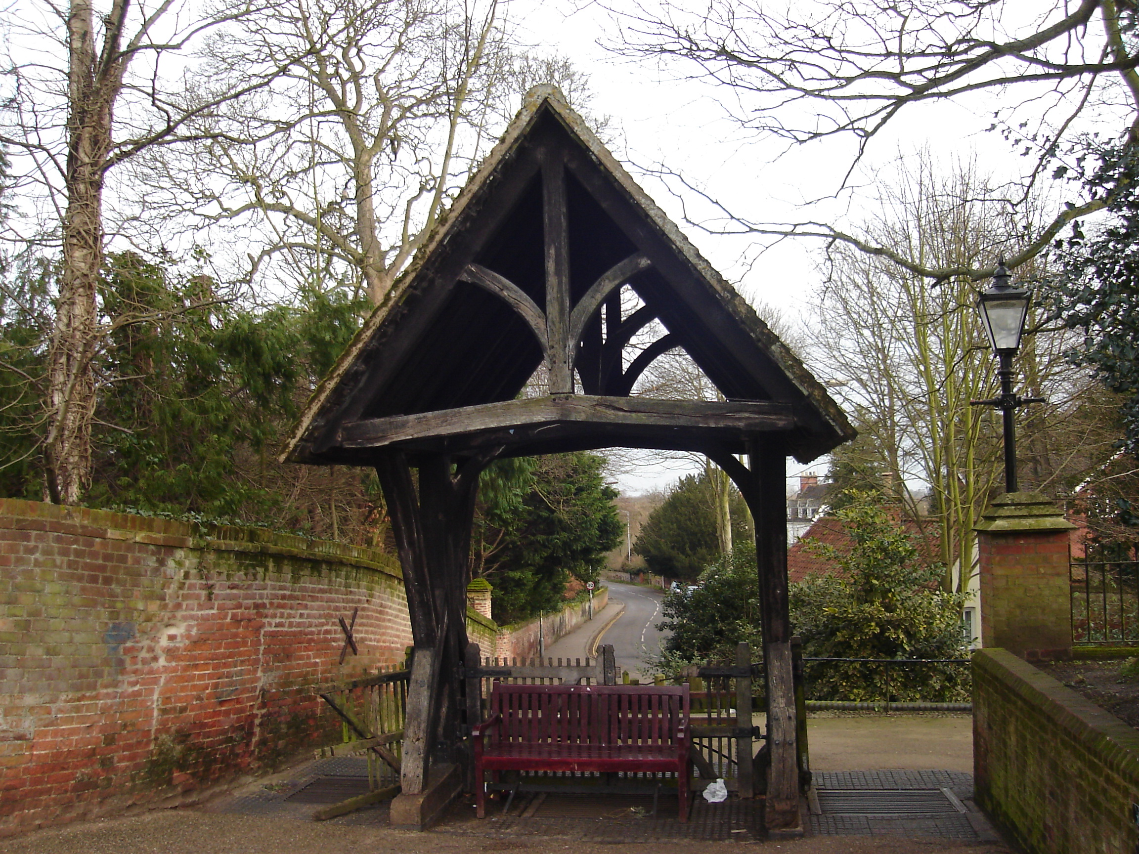 Picture of Lychgate at St Michaels church Aylsham, Norfolk